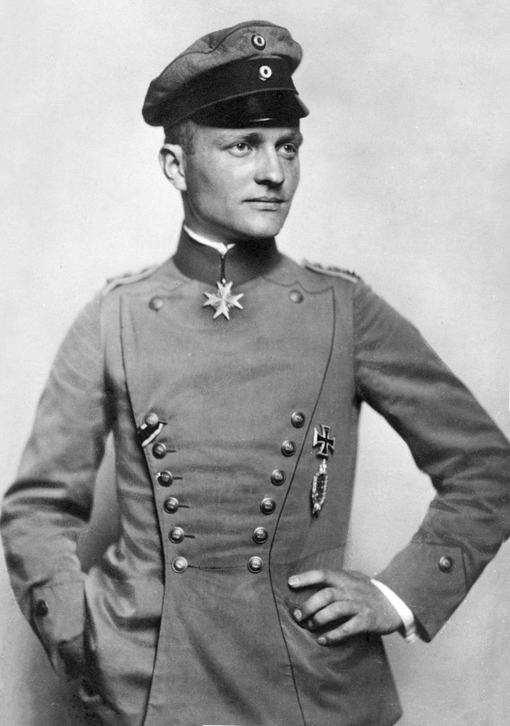 Picture postcard of Manfred von Richthofen. Sanke postcard #533.